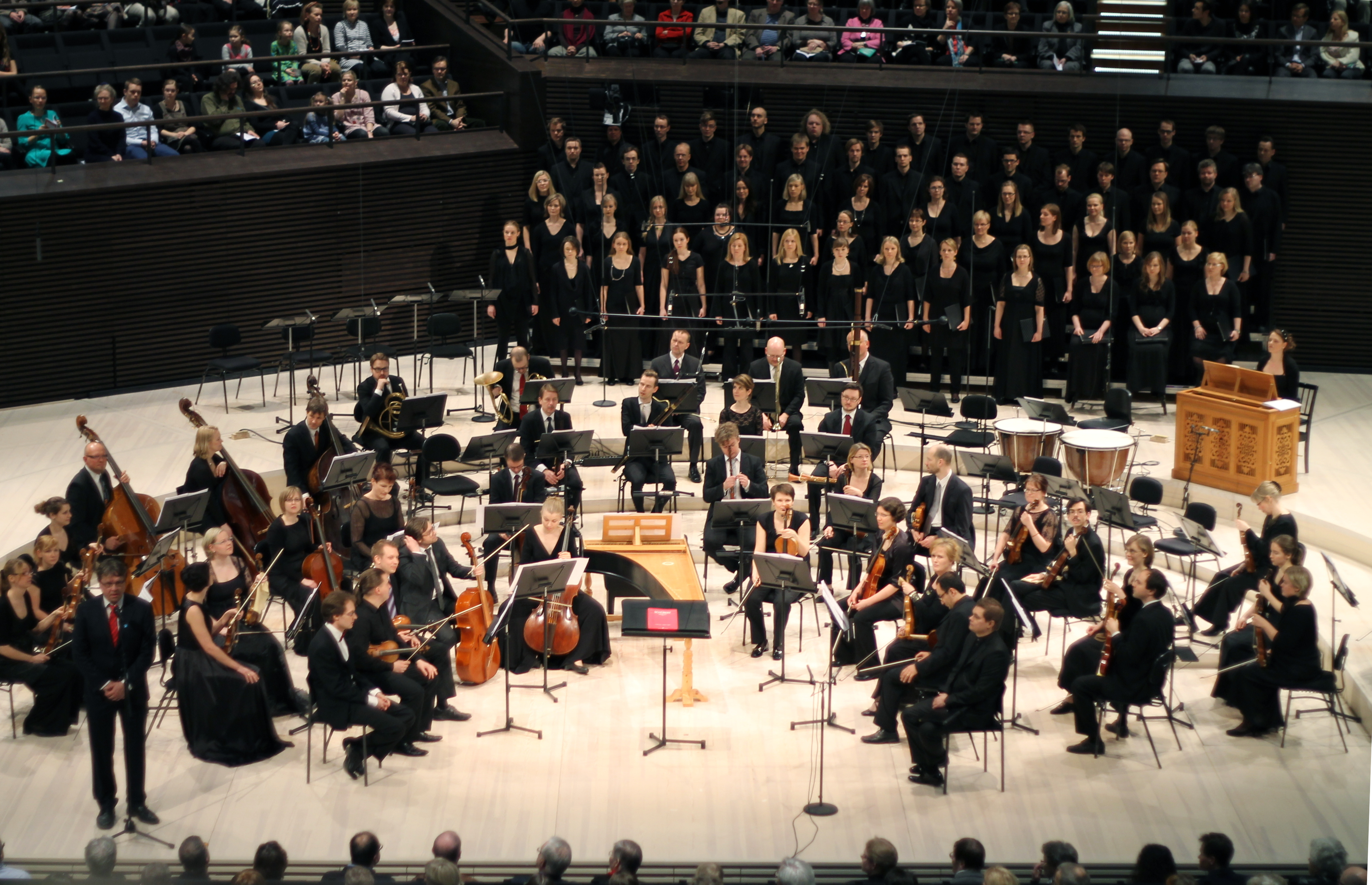 Pekka Sauri welcoming audience to the 15th anniversary concert of the Helsinki Baroque Orchestra at the Helsinki Music Centre, with the chamber choirs Kaamos and Kampin Laulu standing in the background.